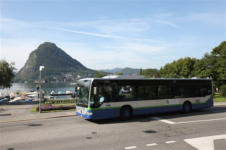 Urban bus of the Trasporti Pubblici Luganesi, used on core urban and Park&Ride routes